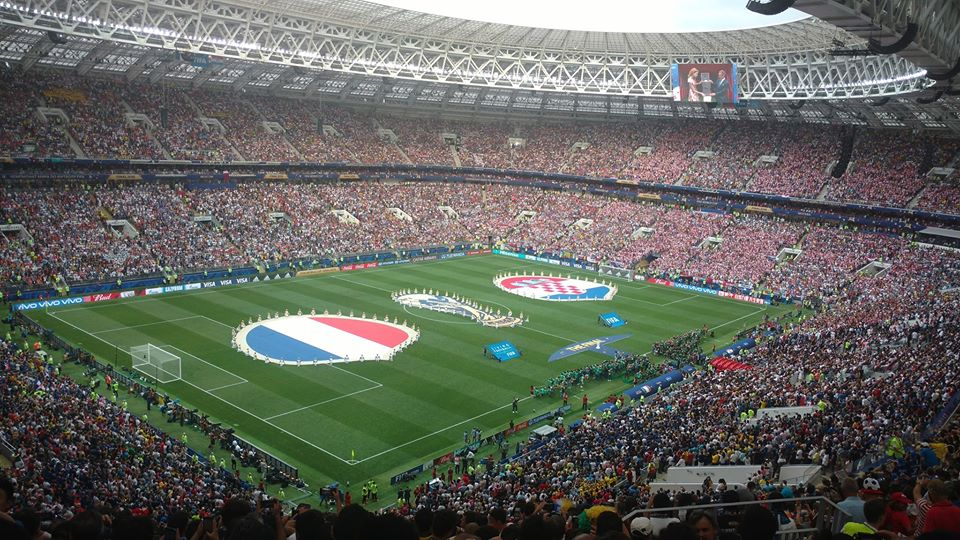 Picture of the 2018 World Cup Final between France and Croatia. This picture was taken minutes before the commencement of the national anthems.